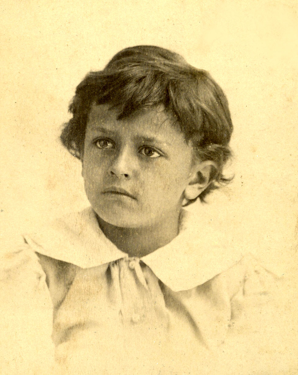 Nikolay Hieronimovich Krause